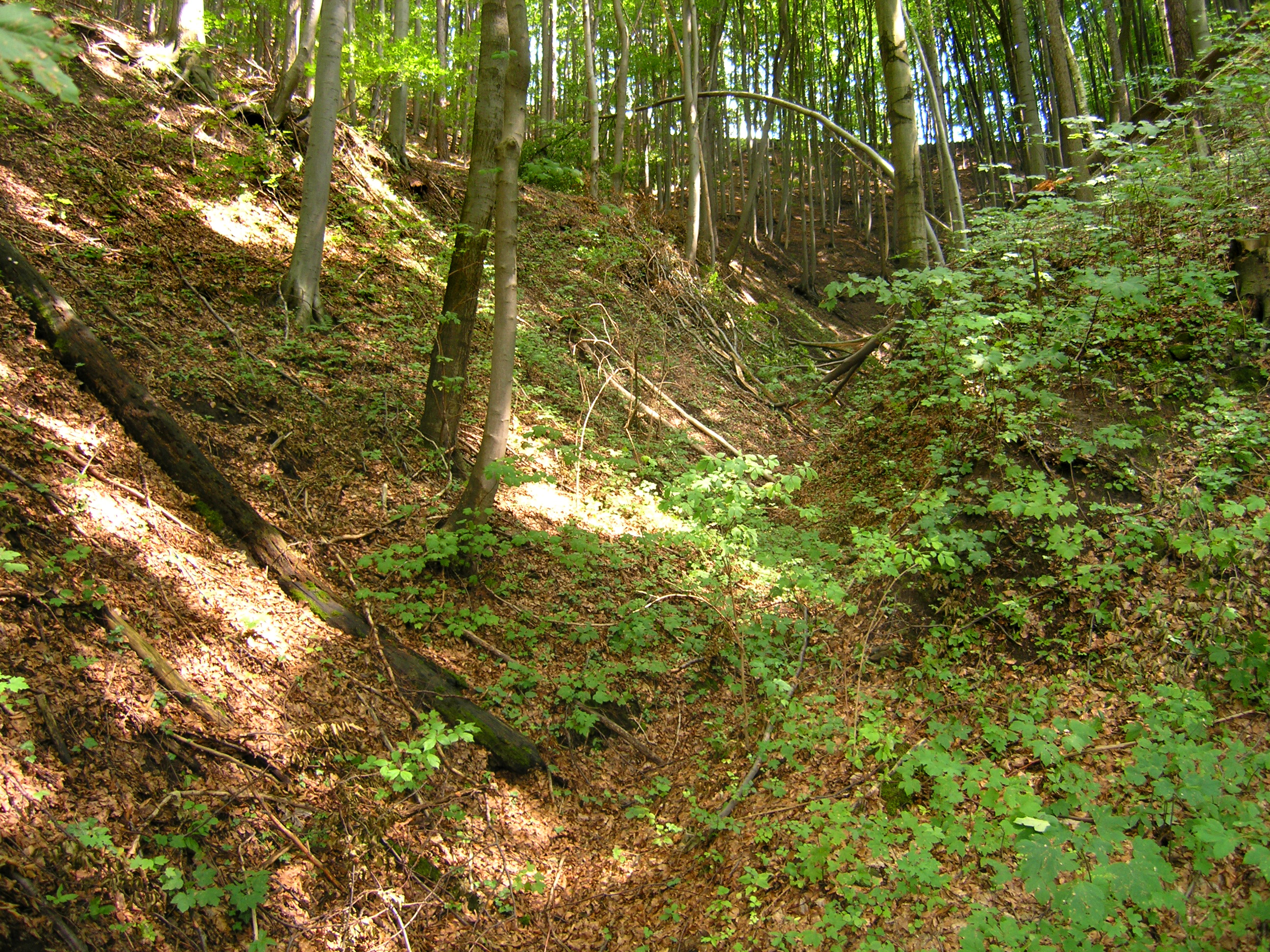 Bučiny u Rakous natural reserve by Rakousy village, Czech Republic